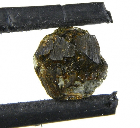 Nikischerite Dimensions: 0.6 cm x 0.6 cm x 0.5 cm Locality: Huanuni mine, Huanuni, Dalence Province, Oruro Department, Bolivia (Locality at ) This is a very hard-to-find specimen of the rare sulfate Nikischerite (named for Tony Nikischer). This mineral is the iron analogue of the manganese species Shigaite. This piece features a semi-lustrous, layered, brown (green underneath) spherical crystal group. Keep in mind that these pieces are essentially from a one time find at Huanuni. This specimen was acquired at the mine at Huanuni by Brian Kosnar. In Brian's estimation, there may be no more than 200 specimens of this species in the world